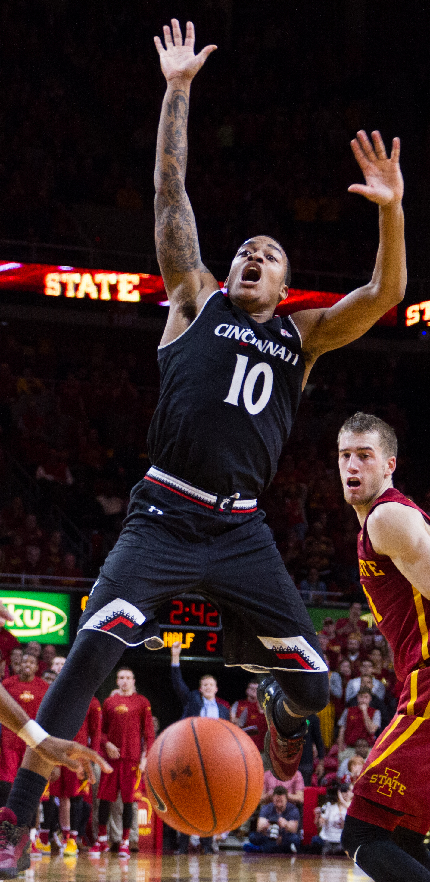 Iowa State vs. Cincinnati basketball